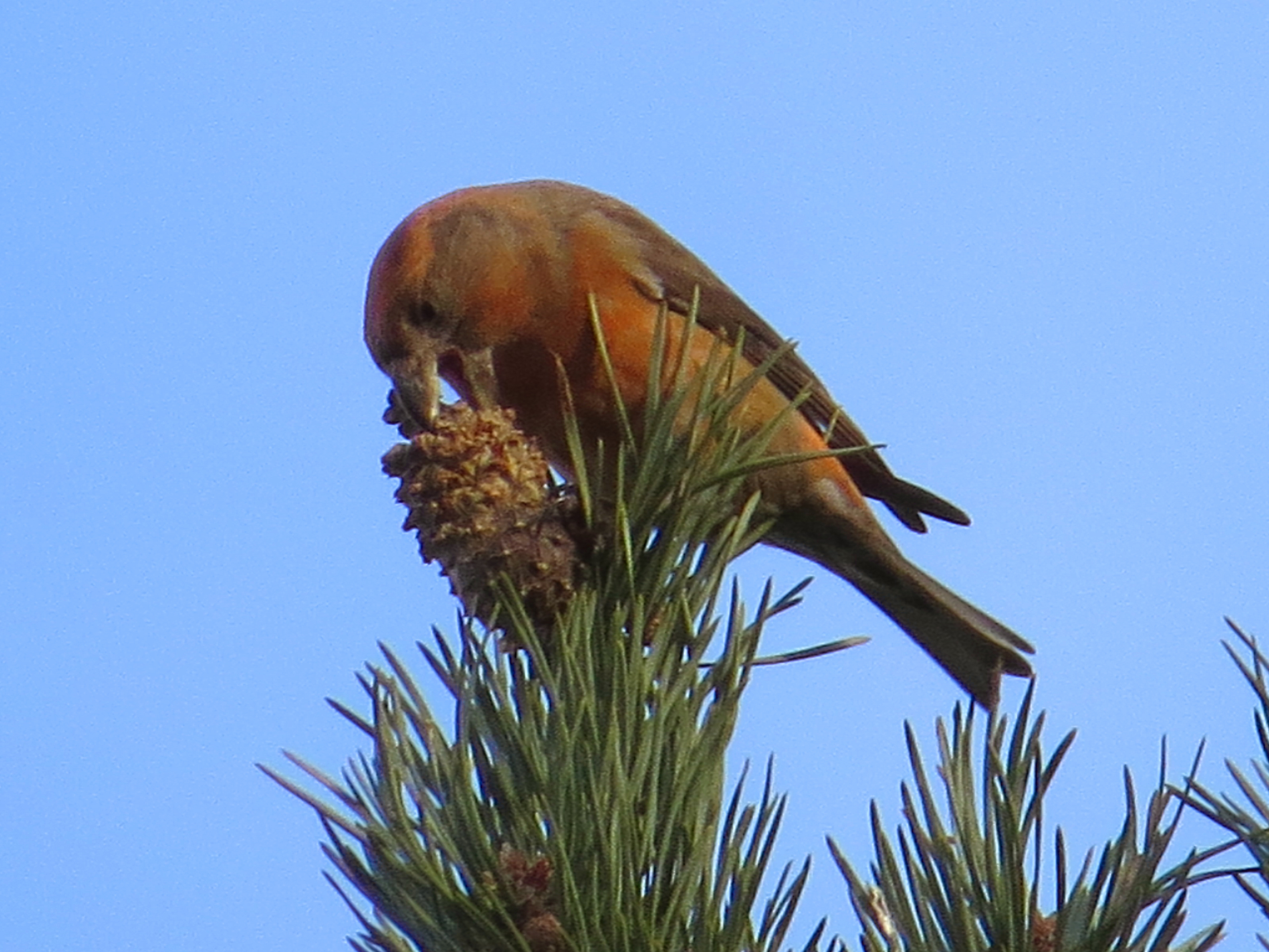 Parrot Crossbill Loxia pytyopsittacus ♂, Budby Common, Nottinghamshire